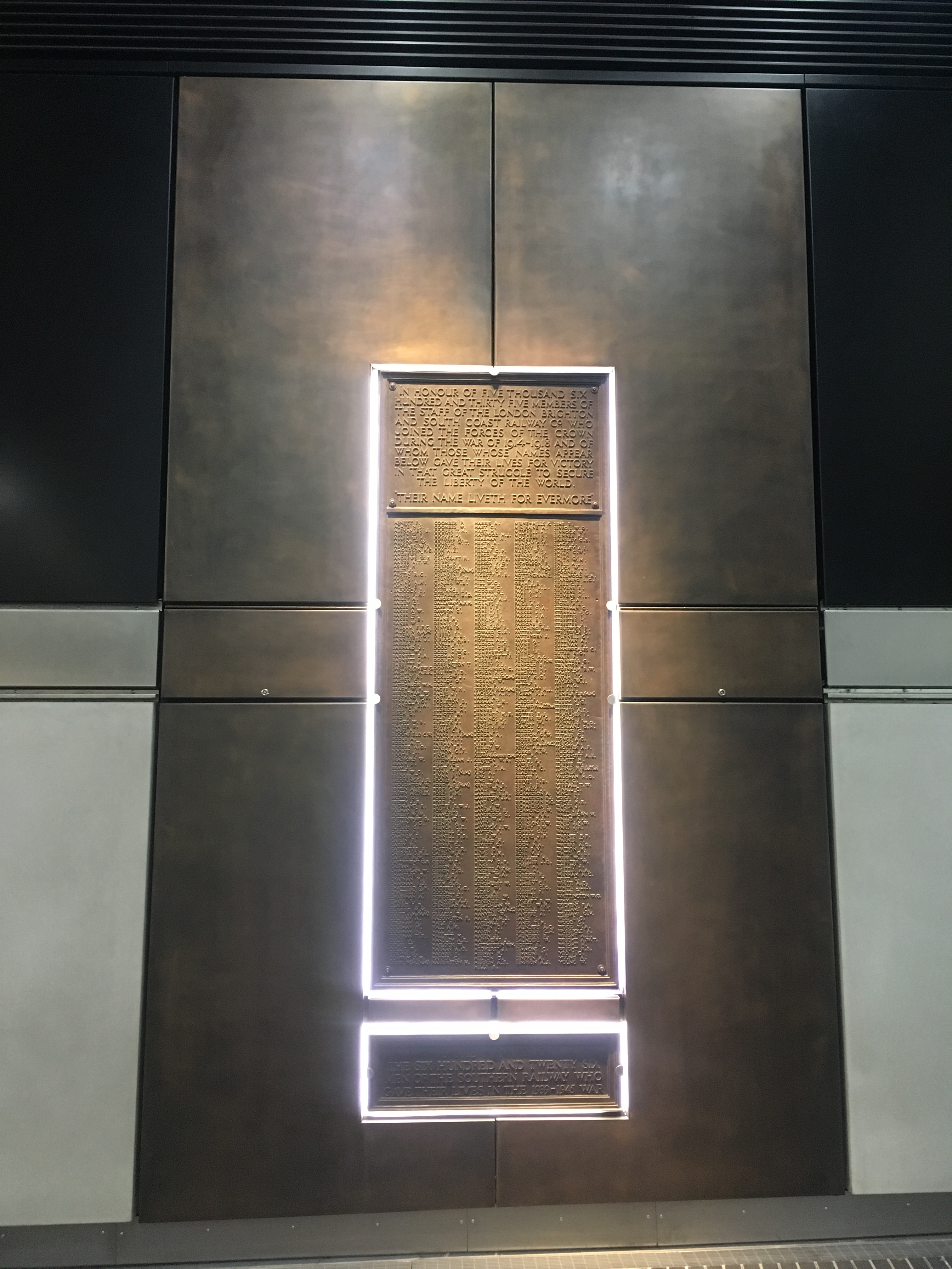 The memorial at London Bridge Station to the employees of the London, Brighton and South Coast Railway War Memorial who were killed in WWI and WW2.